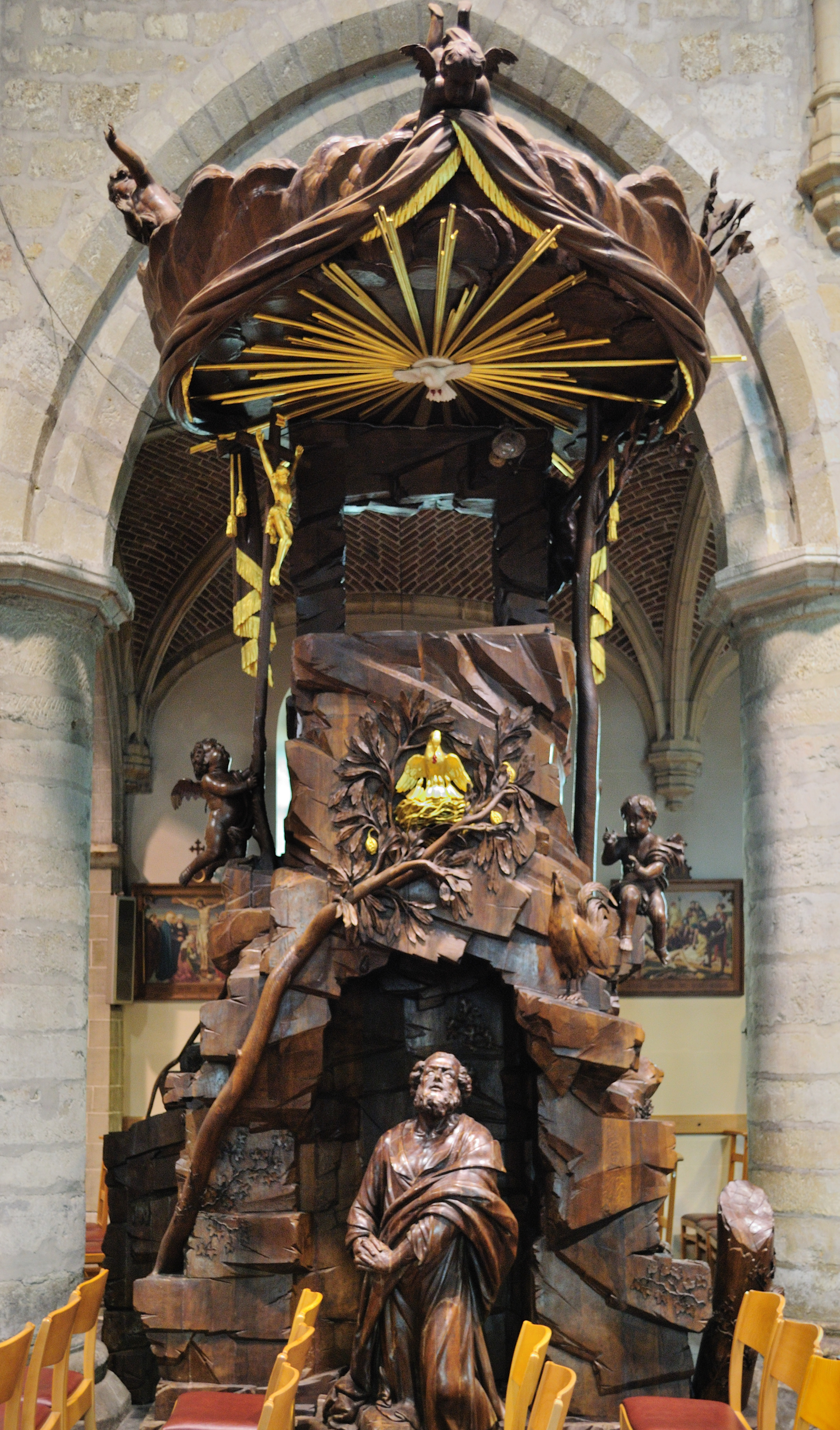 Interior of Saint Michael's church at the village of Hekelgem, commune of Affligem, Belgium. Front view of pulpit. Nikon D60 f=24mm f/4.2 at 1/4s ISO 800. Postprocessed using Nikon ViewNX 1.5.2 and Gimp 2.6.8.